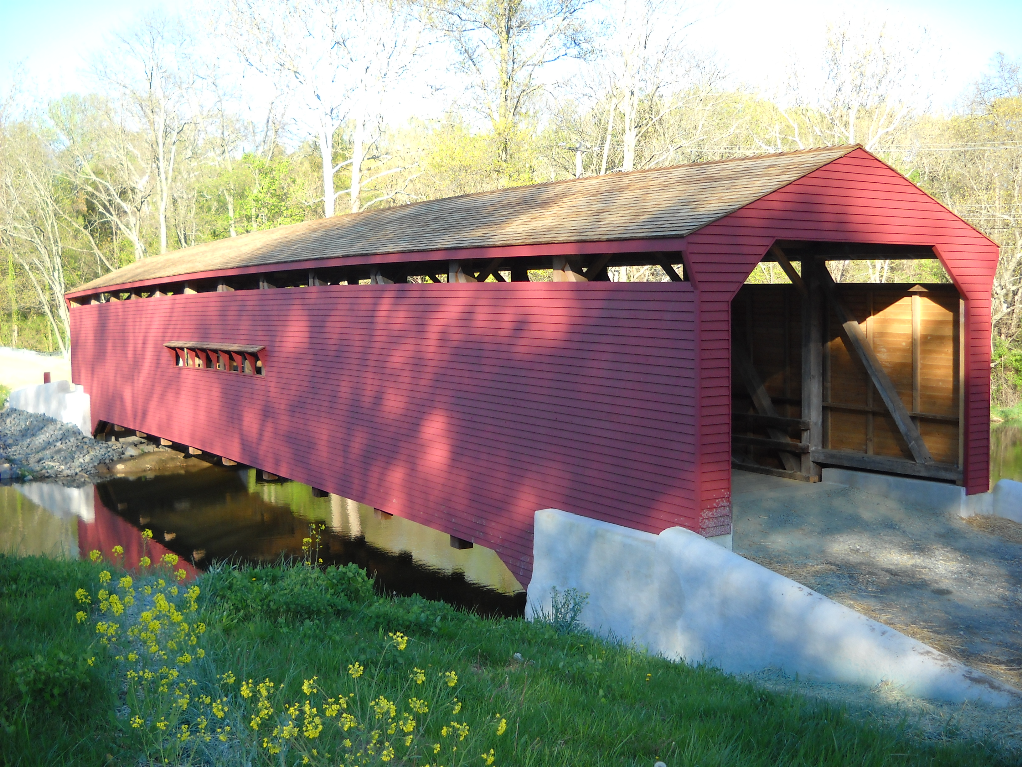 Gilpin's Falls Covered Bridge. As rehabilitation completed in 2010 by Engineers, Wallace, Montgomery & Associates, LLP and Contractor, Kinsley Contractors